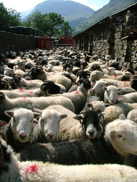 Bath Time, Seathwaite Farm. Packing them in ready for the sheep dip. a busy time on the farm.